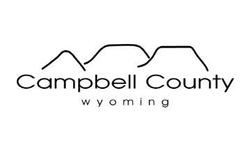 Campbell County, Wyoming Flag